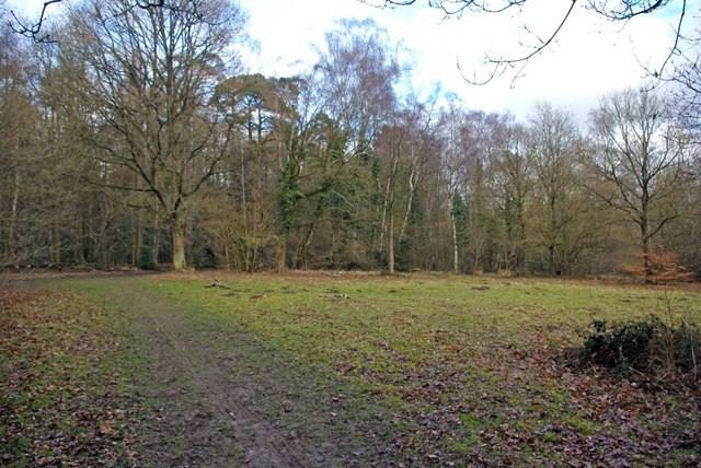 Glade in Whippendell Wood Wippendell Wood consists of 160 acres of woodland owned and managed by Watford Borough Council see for more info. the wood was used as a location site in one of the Star Wars movies.